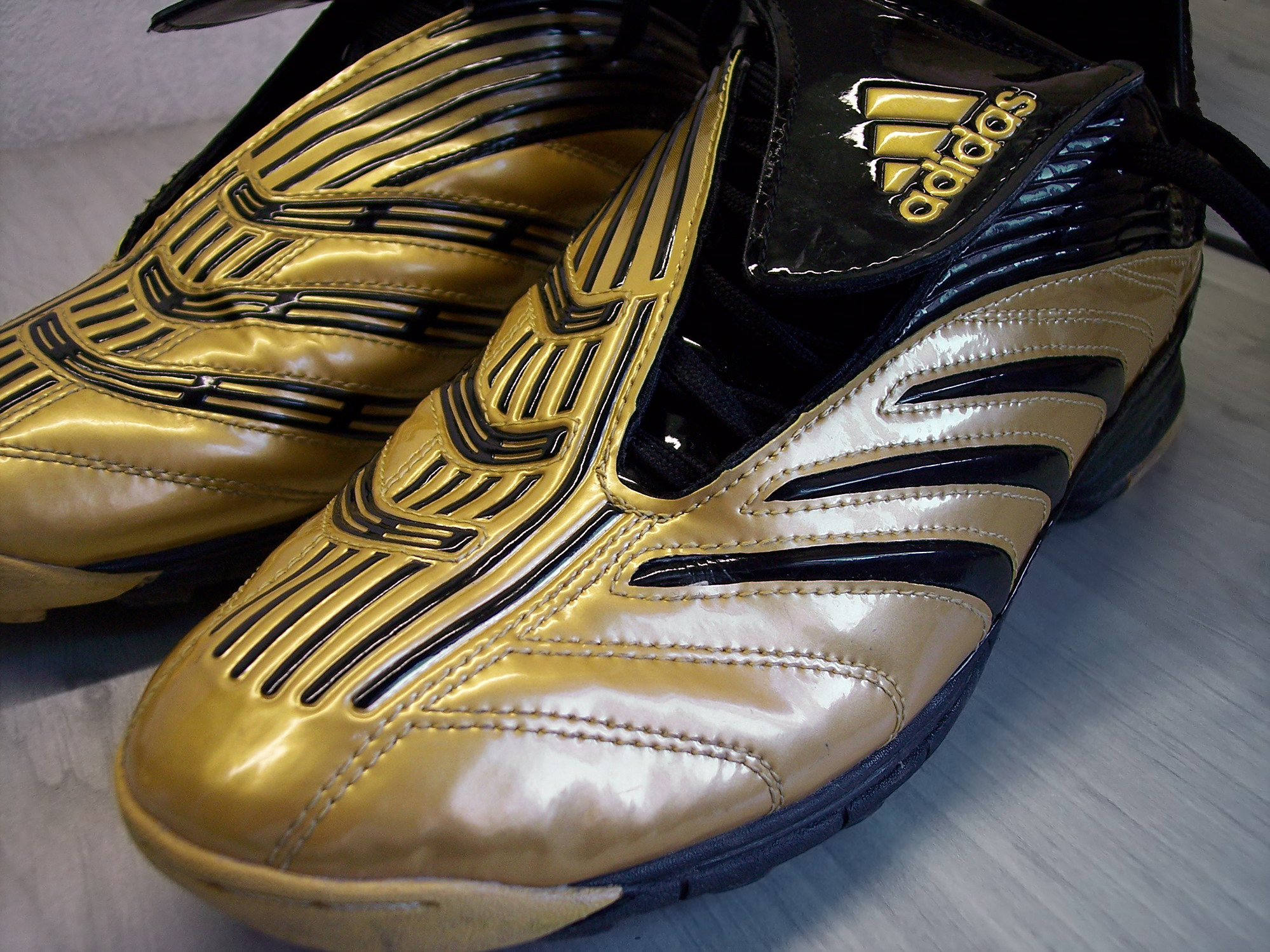 Adidas Predator + Absolado TRX TF Soccer shoe